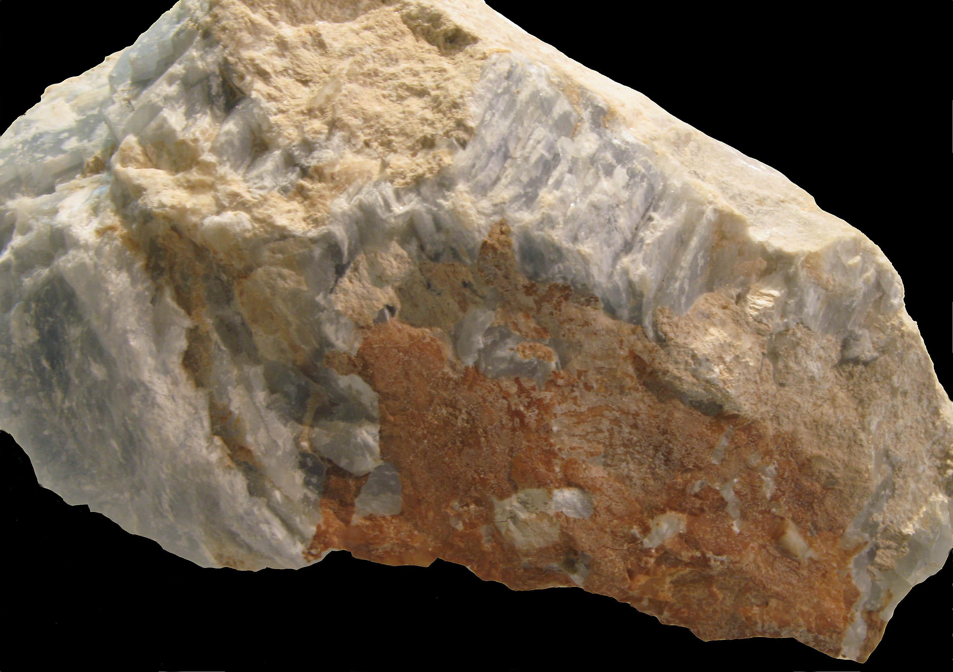 Åkermanite (yellowish brown), Calcite (blue), Hillebrandite (variety Foshagite, fibrous), Tilleyite (mallow colored) Locality: Crestmore, Riverside, California, USA Collection of Dr. Schilly, 1966 - Exposed in the Mineralogical Museum of University Bonn, Germany